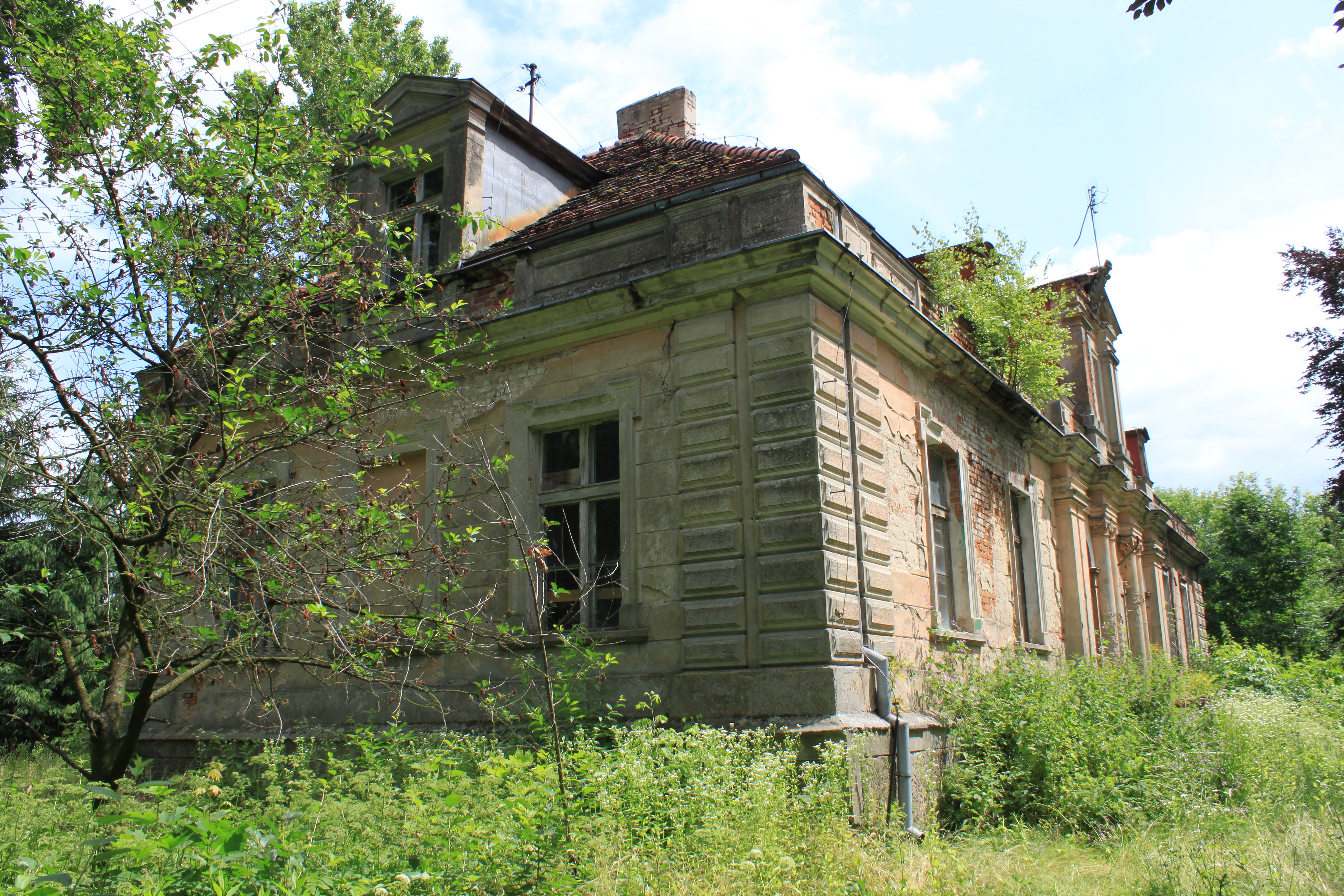 The southern side of the manor house in Łękanów, southwestern Poland, on June 27, 2013.